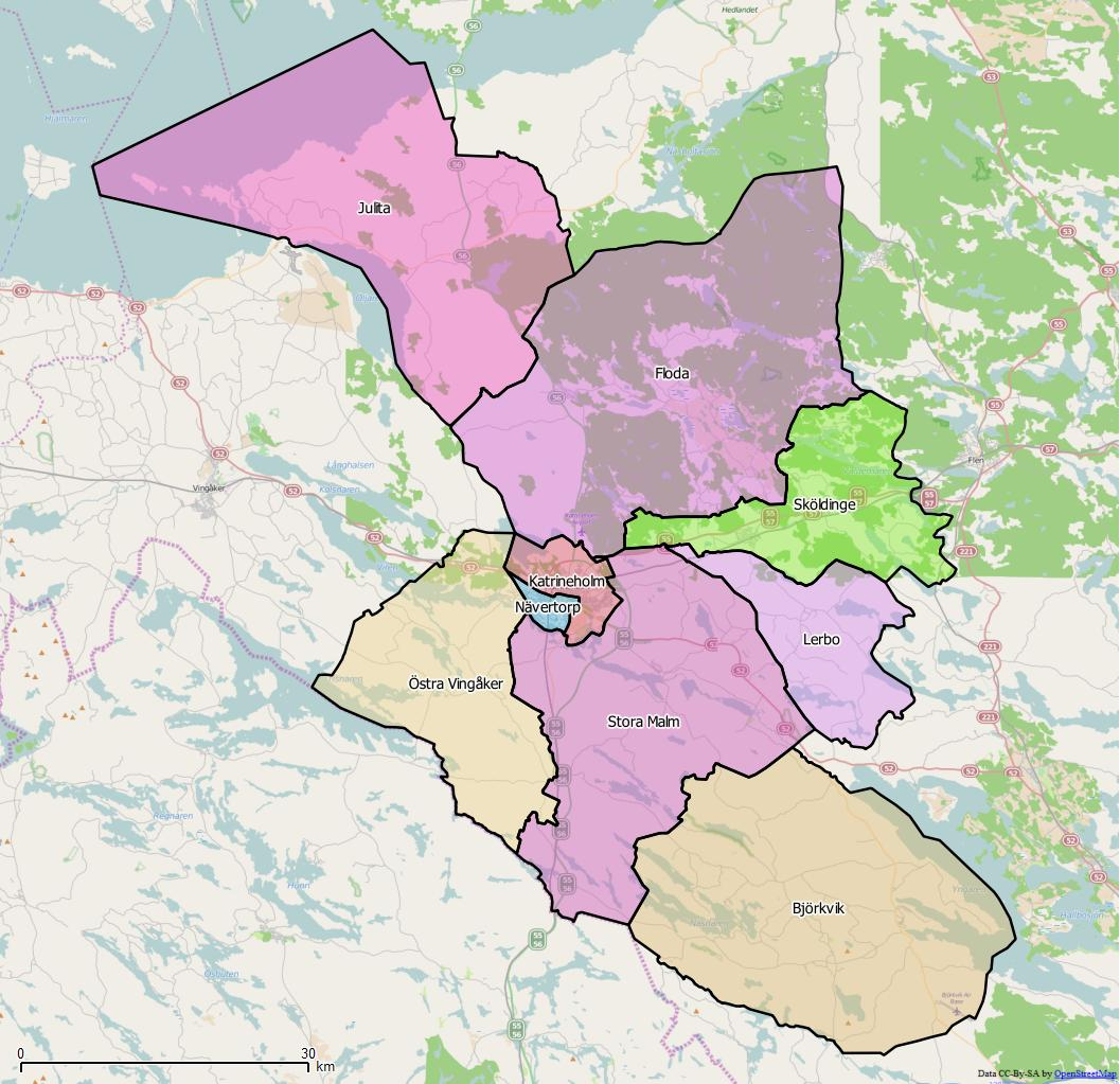 Distriktsindelningen i Katrineholms kommun World file: 110.3486965989834232 0 0 -110.3486965989834232 1745055.47327086003497243 8240474.37535028532147408